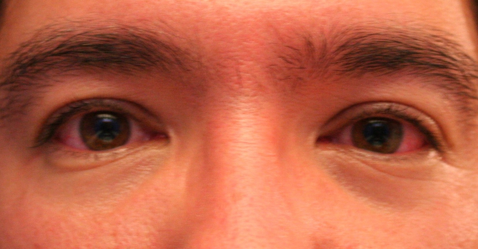 Scombroid food poisoning